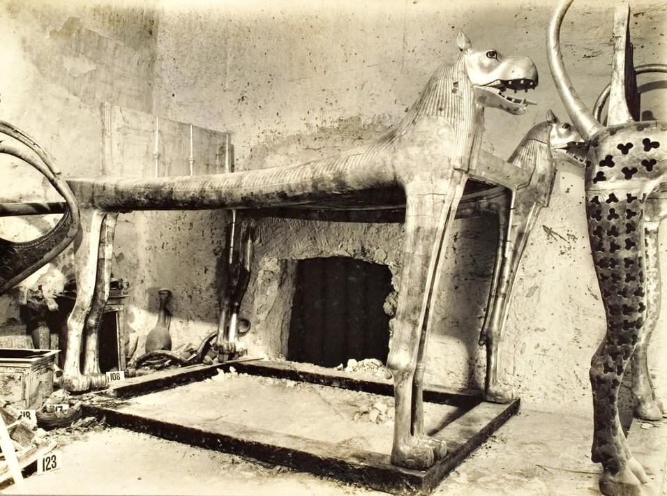 Harry Burton: Tutankhamun tomb photographs: a photographic record in 5 albums containing 490 original photographic prints ; representing the excavations of the tomb of Tutankhamun and its contents. Vol. 3